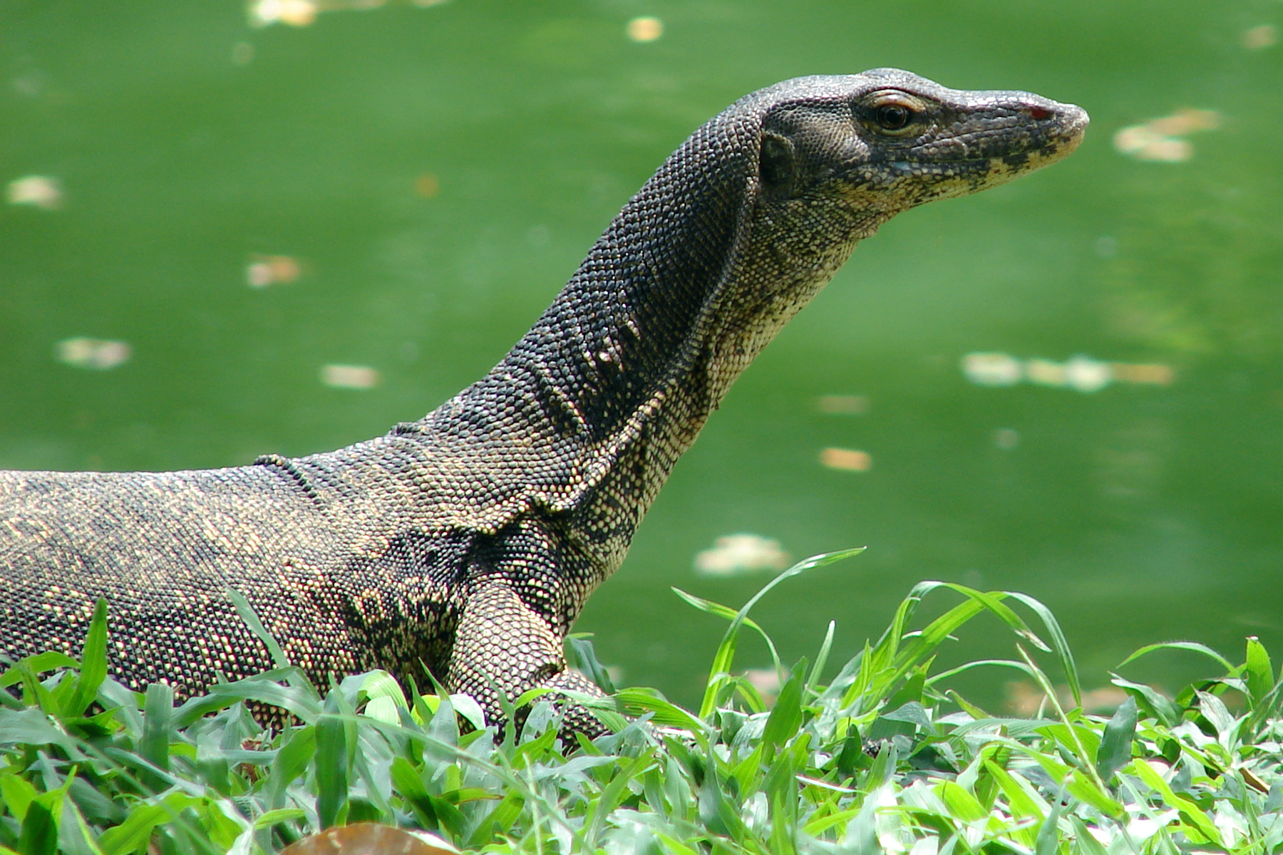 A water monitor (Varanus salvator) roams the shore of a lake in Universiti Sains Malaysia, Penang, Malaysia.